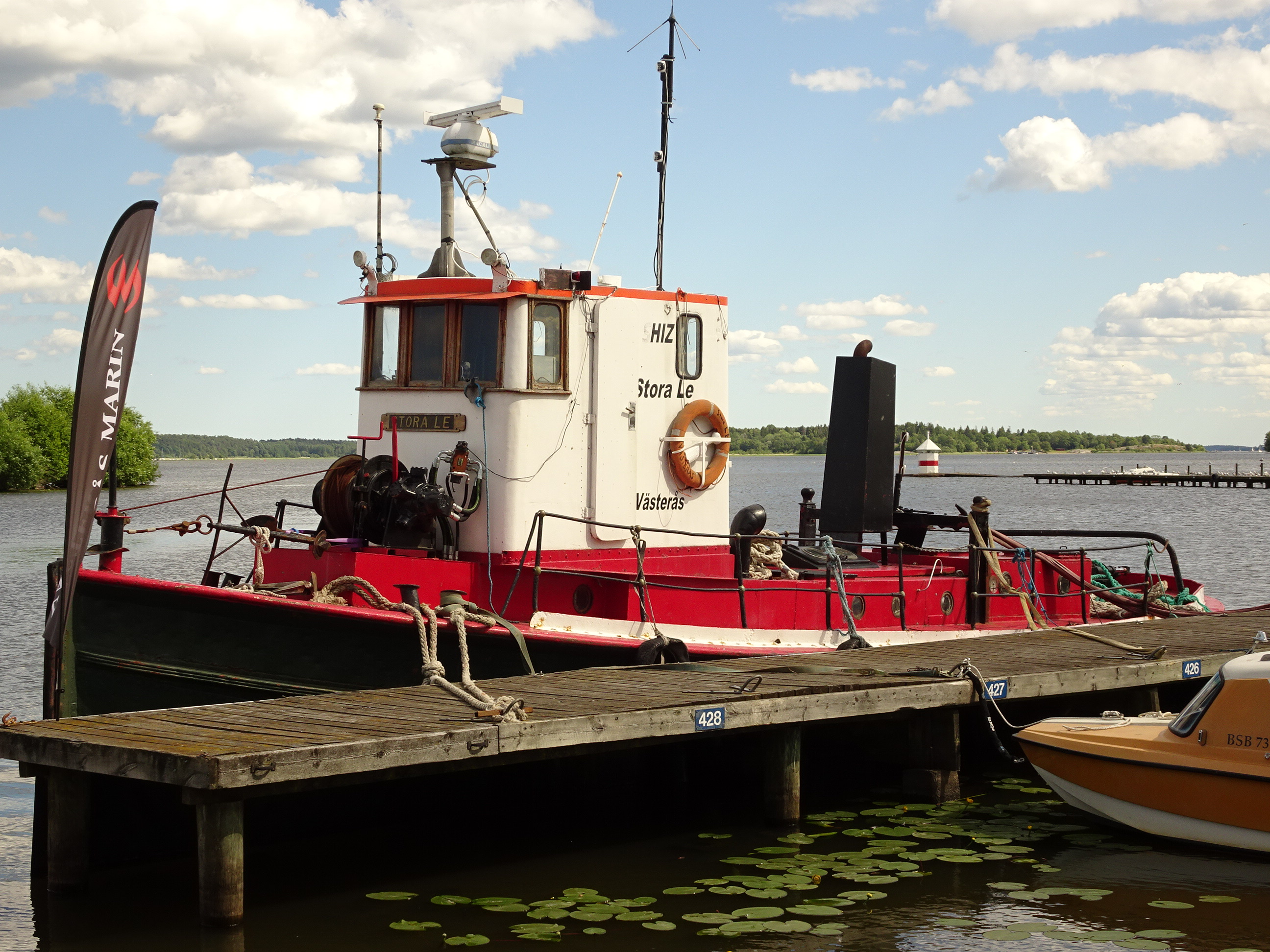 Motor ship Stora Le, located in Västerås, Sweden. Built in 1898 by Thorskogs mekaniska verkstad in Torskog in Lilla Edet municipality in Sweden.